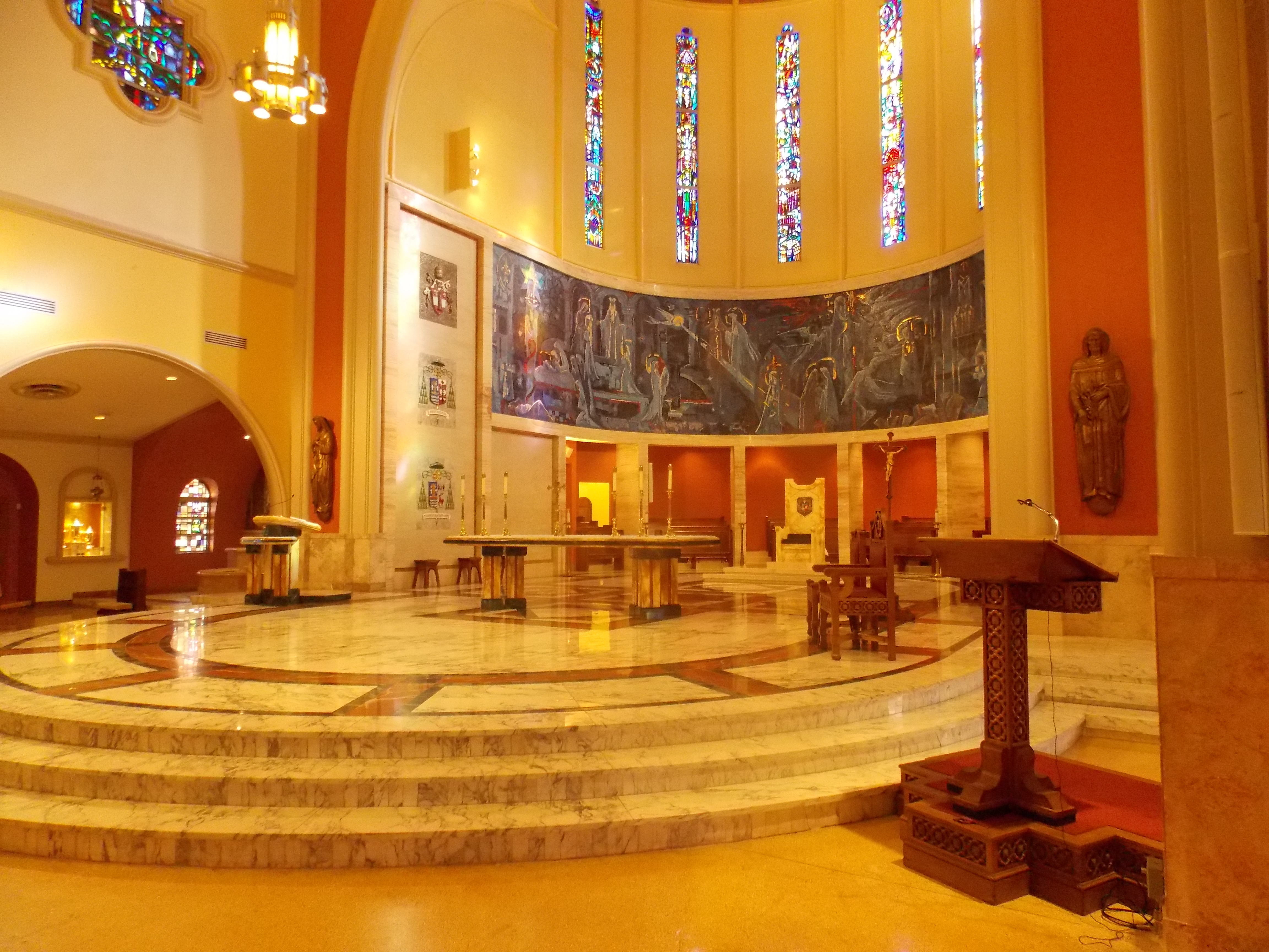 The interior of the Cathedral of Saint Mary in Miami, Florida.